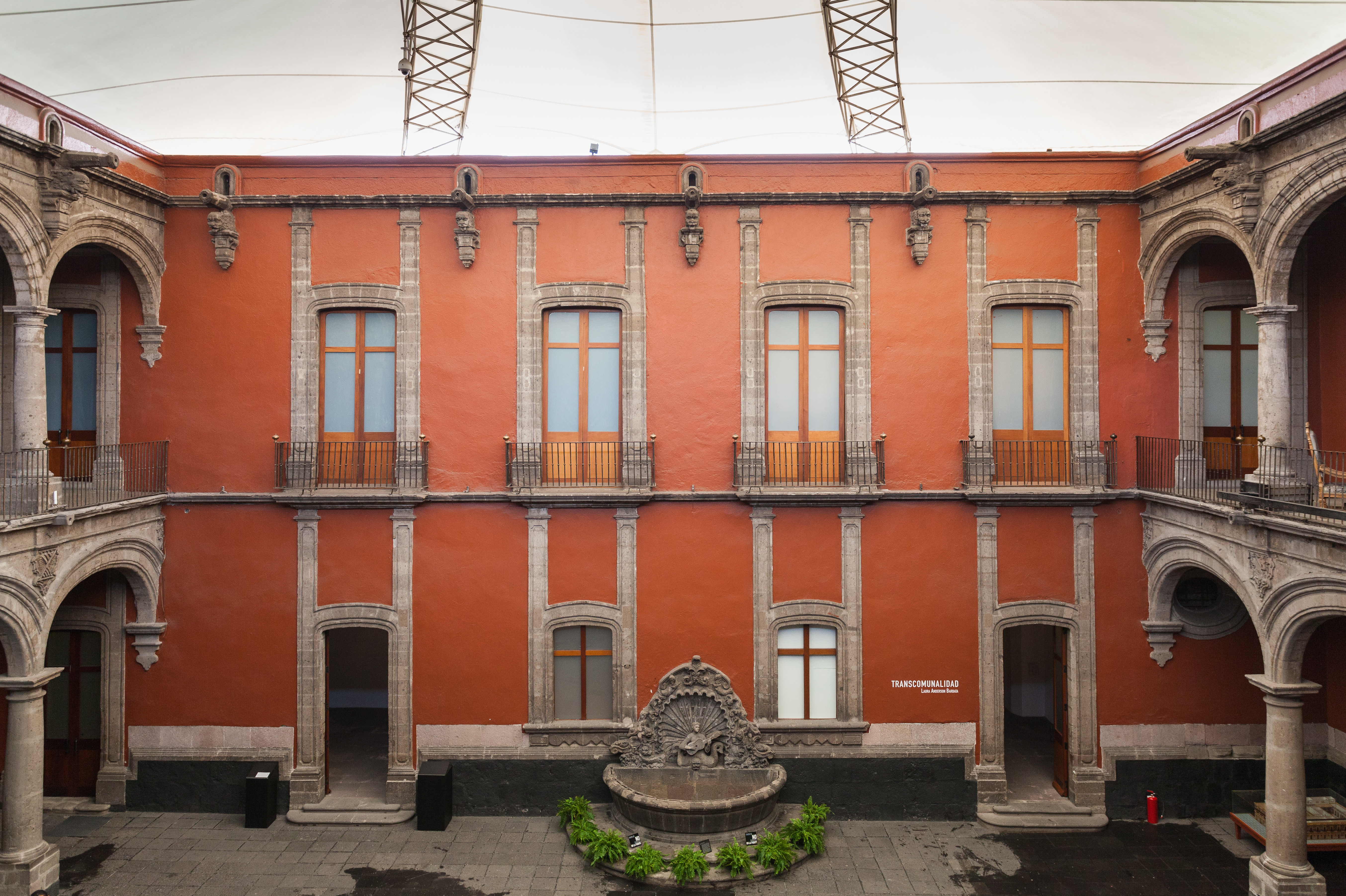 Museum of the City of Mexico, México D.F., México